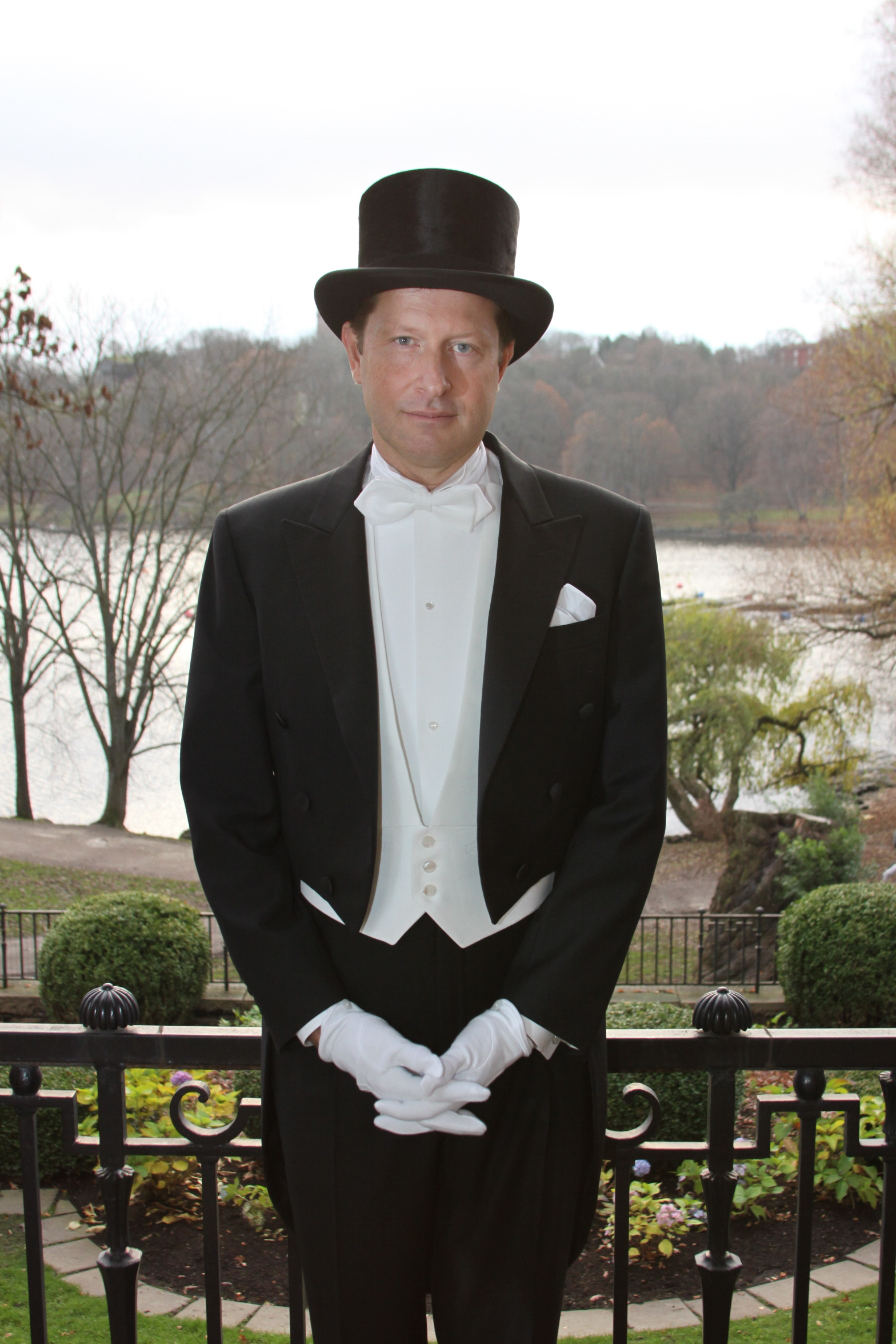 Ambassador Mark Brzezinski presented his credentials to His Majesty King Carl XVI Gustaf on November 24, 2011 to formally take up his role as U.S. Ambassador to the Kingdom of Sweden.